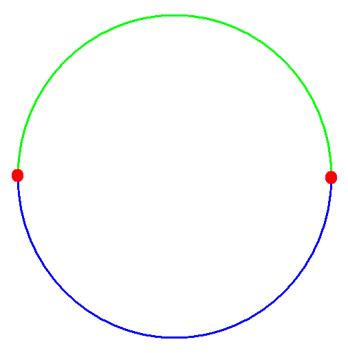 Example of a Digon.